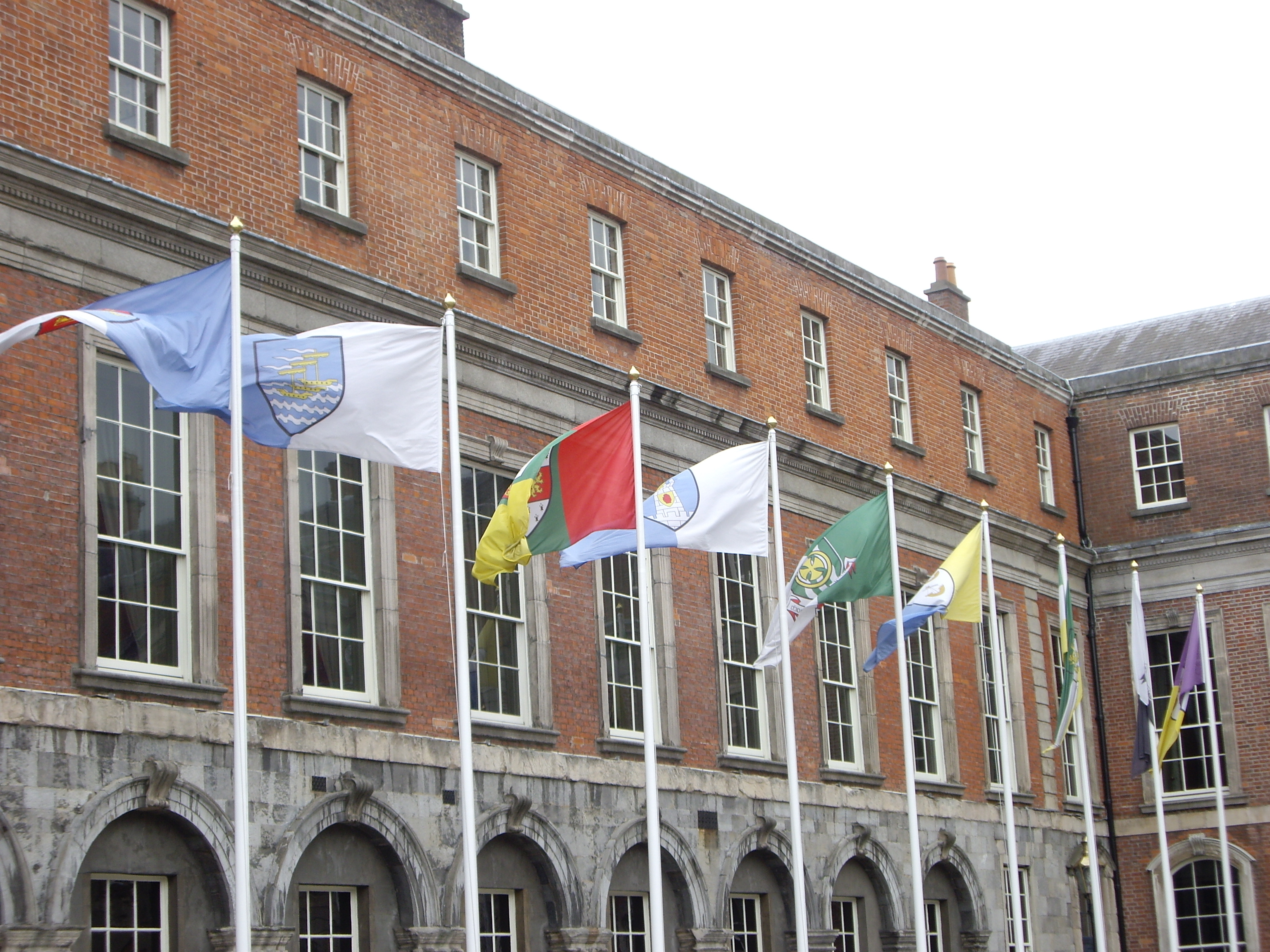 Some of the flags of the Counties of Ireland (based on the Gaelic games county colours and counties' coats of arms) flying in the Upper Yard of Dublin Castle. Left to right: Laois Waterford Carlow Monaghan Limerick Clare Offaly Sligo Wexford